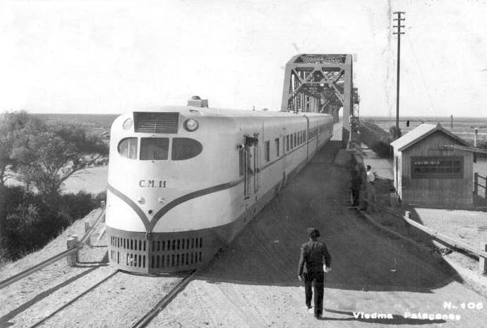 A railcar by Ganz crossing the Río Negro in the province of the same name. Those trains had been acquired by the Argentine state, being destinated to the Buenos Aires-Bariloche services.